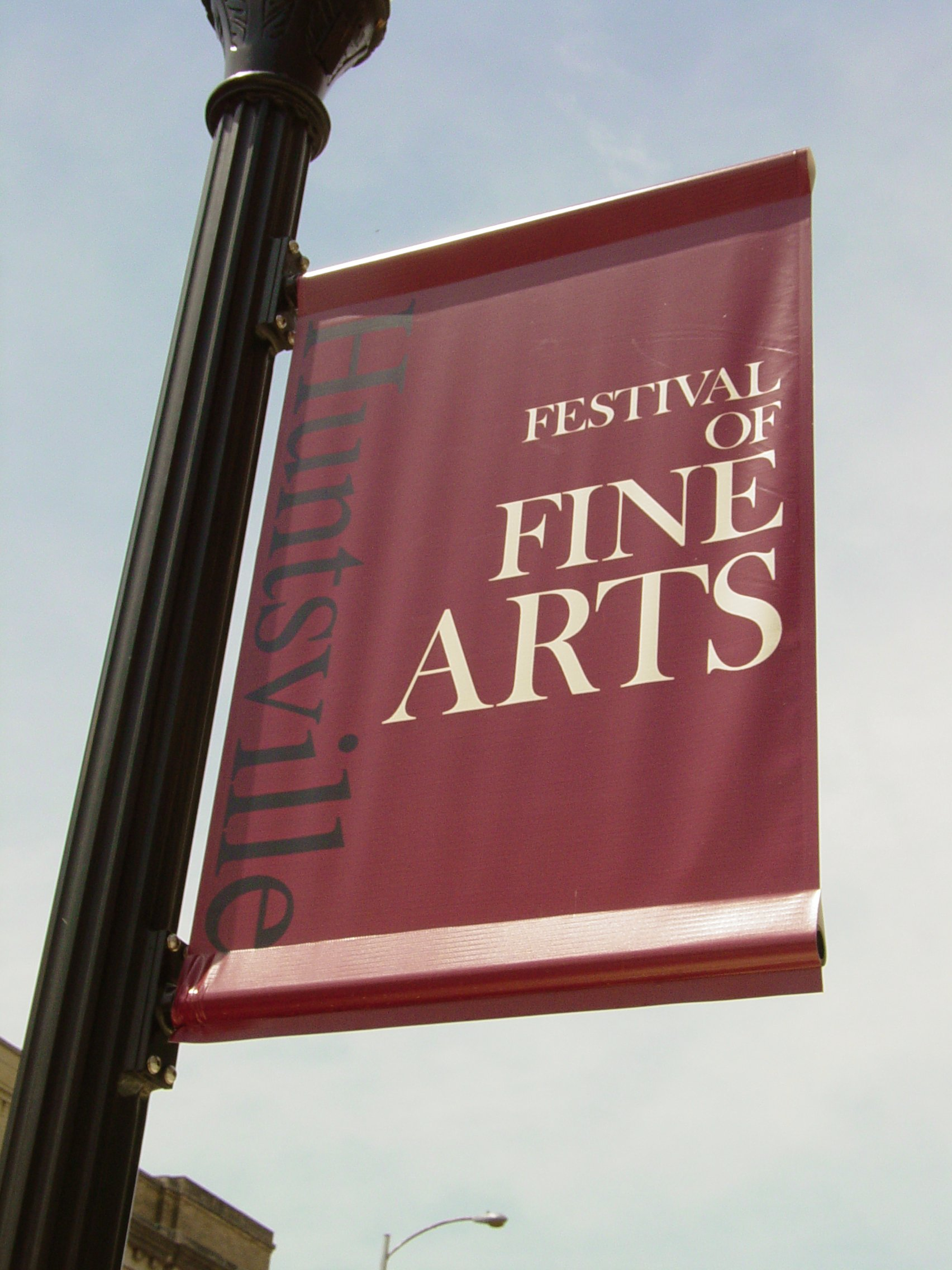 "Huntsville Festival of Fine Arts" sign hanging from a lamppost in downtown Waynesboro, Virginia, part of the "dressing" of the downtown area for filming of Evan Almighty.